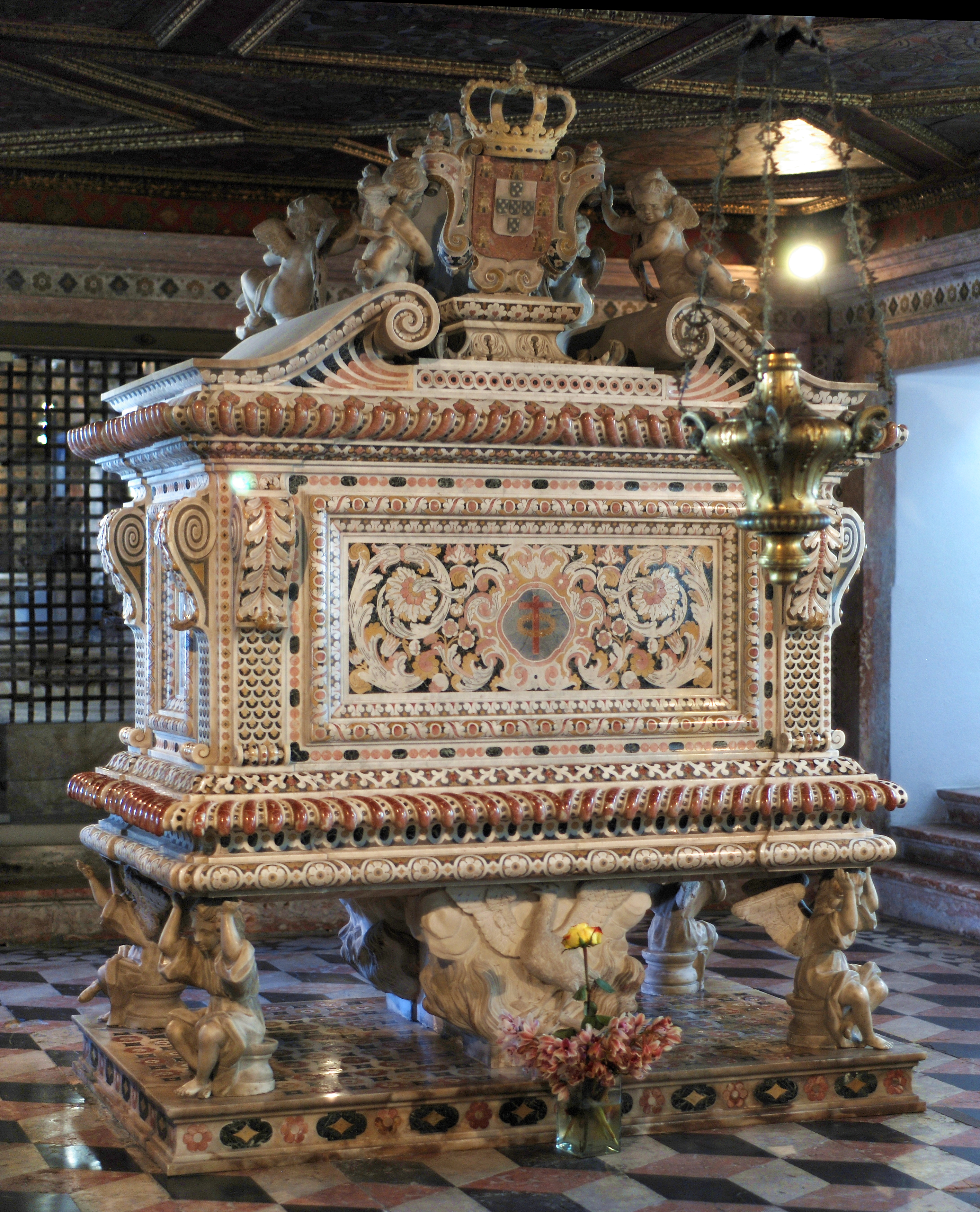 Tomb of blessed Joan of Portugal, in the Convento de Jesus at Aveiro, Portugal. Marble work of 17th century